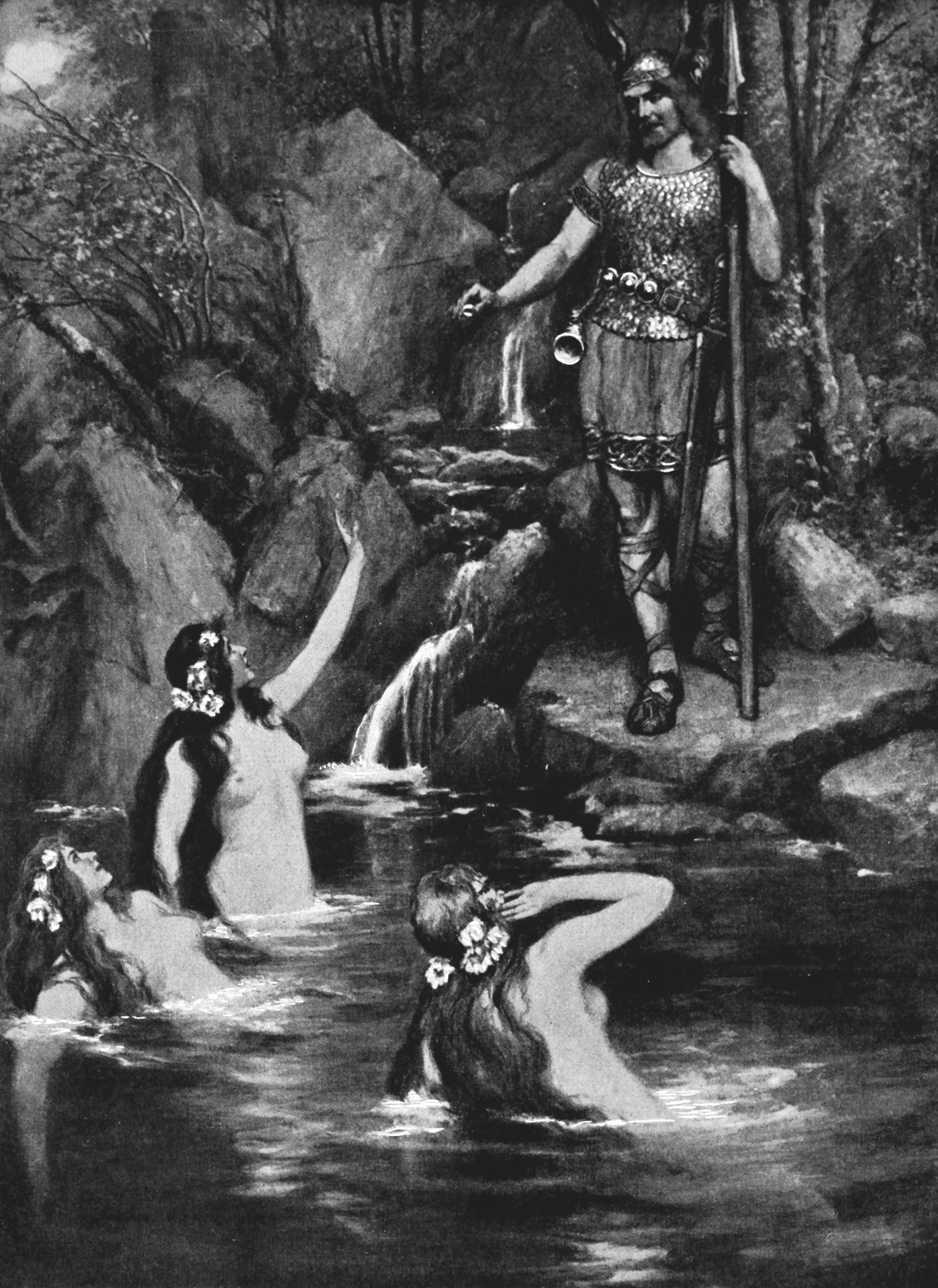 Wagner - Götterdämmerung - Siegfried: "If you threaten my life, hardly you'll win from my hand the ring!" - Ferdinand Leeke Title: The Victrola book of the opera : stories of one hundred and twenty operas with seven-hundred illustrations and descriptions of twelve-hundred Victor opera records Year: 1917 (1910s) Authors: Victor Talking Machine Company Rous, Samuel Holland Subjects: Operas Publisher: Camden, N.J. : Victor Talking Machine Co. Text Appearing Before Image: Know Thee ThenWas a Dwarf) By Carl Burrian, Tenor (In German) 55073 12-inch, $1.50 Hagen gives him a magic drink, which brings back his memory, and he goes on to tell of theforest bird and his quest of the lovely Briinnhilde. Zu den Wipfeln lauscht ich (To the Branches Gazed I Aloft) By Carl Burrian, Tenor (In German) 55073 12-inch, $1.50 Gunther begins to listen attentively, but when Siegfried reaches this part of his narrative,Hagen plunges his spear in Siegfrieds back and he falls. Gunther, in pity for the dying man,leans over him and Seigfried faintly says : Siegfried: Briinnhilde! Heavenly bride!— Look up! Open thine eyelids! What hath sunk thee once more in sleep? Who drowns thee in slumber so drear? The wakner came, his kiss awoke;— Again now the brides bonds he has broken;- Enchant him Briinnhildes charms! Ah! now forever open her eyelids! Ah! and what odrous breeze is her breath! Thrice blessed ending— Thrill that dismays not— Briinnhilde beckons to me! (He dies.) 188 Text Appearing After Image: FERD. LEEKE Siegfried: If you threaten my life, Hardly youll win from my hand the ring! VICTROLA BOOK OF THE OPERA—THE DUSK OF THE GODS